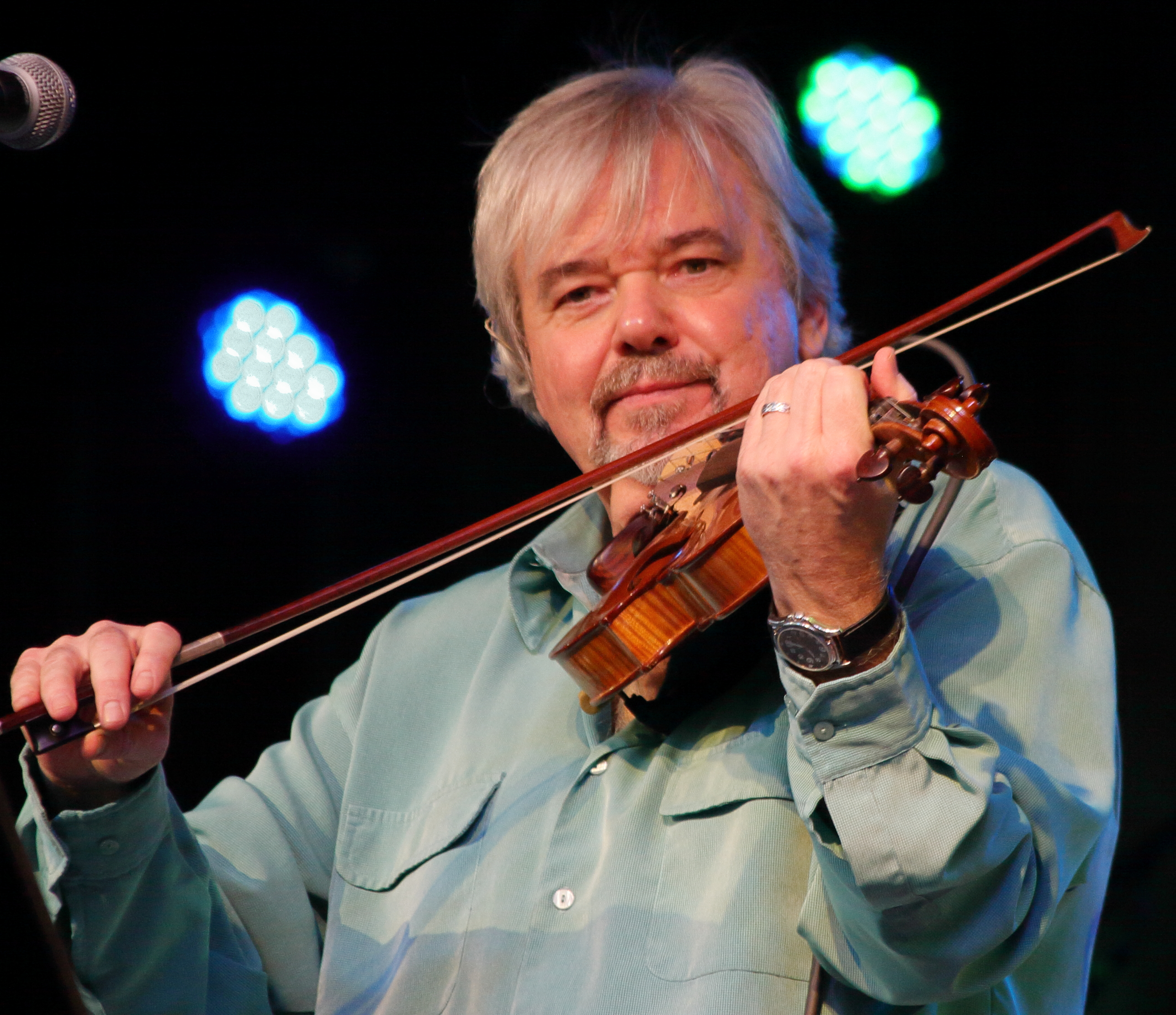 Ricky Simpkins performing at MerleFest in 2009.